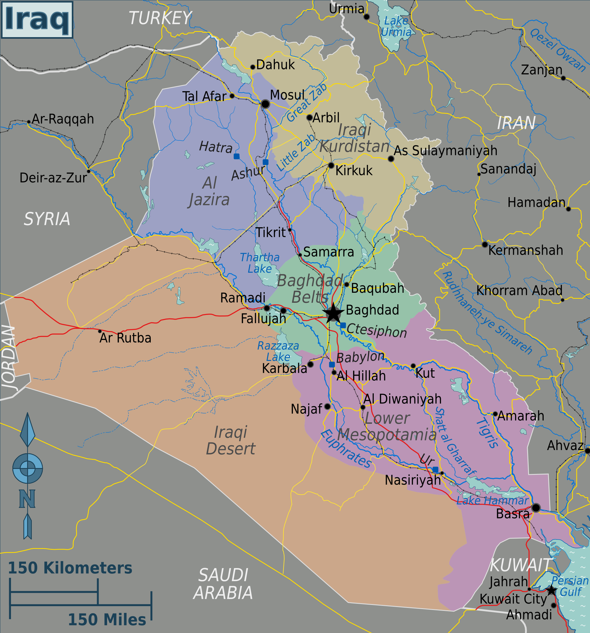 Iraq regions map for use on Wikivoyage, English version